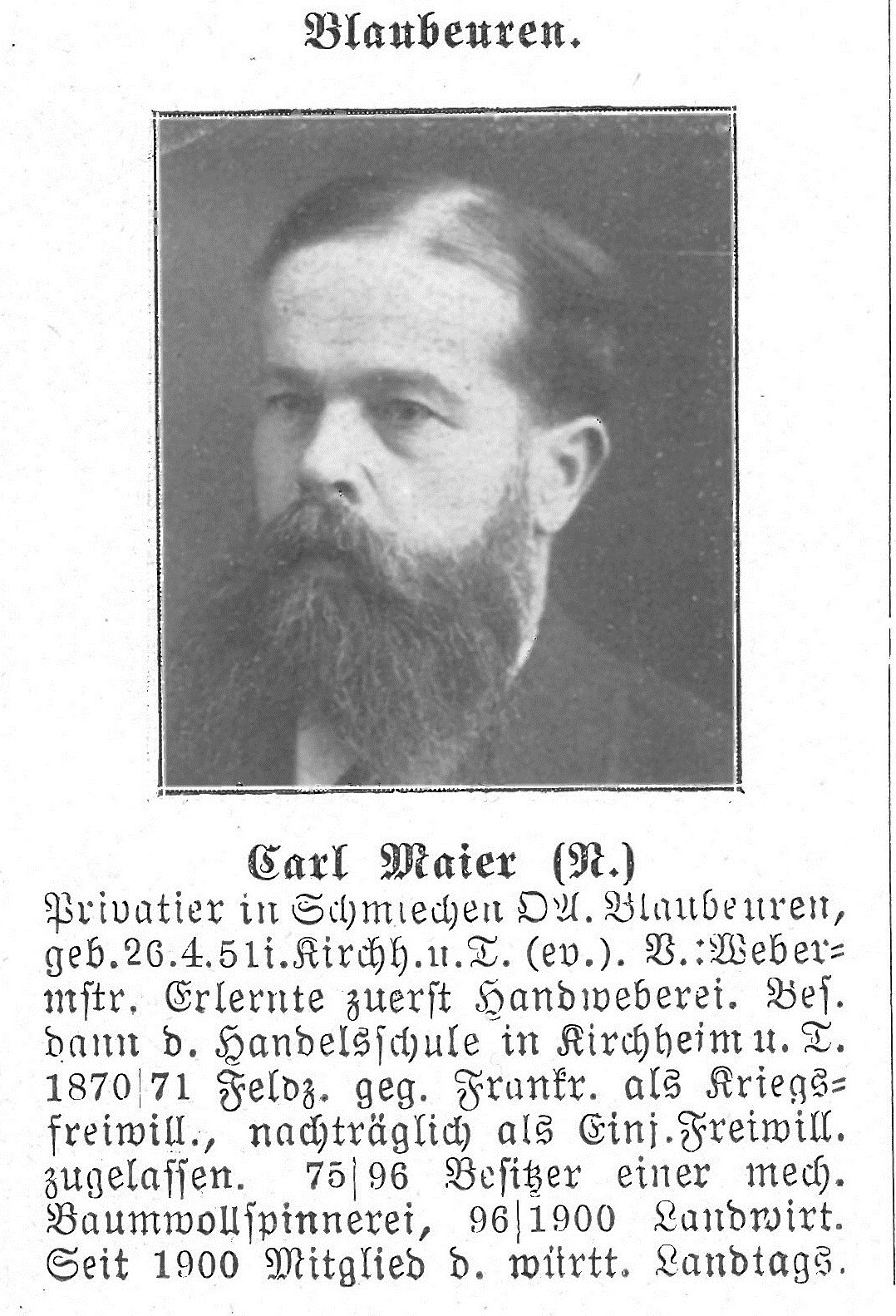 Fotograph of Carl Christian Maier (1851-1938), owner of a cotton spinning mill in Schmiechen (Schelklingen), deputy of the Representative Assembly of Württemberg (Landtag) for the Oberamt Blaubeuren, functionary of the veteran's association of Württemberg (Württembergischer Kriegerbund)